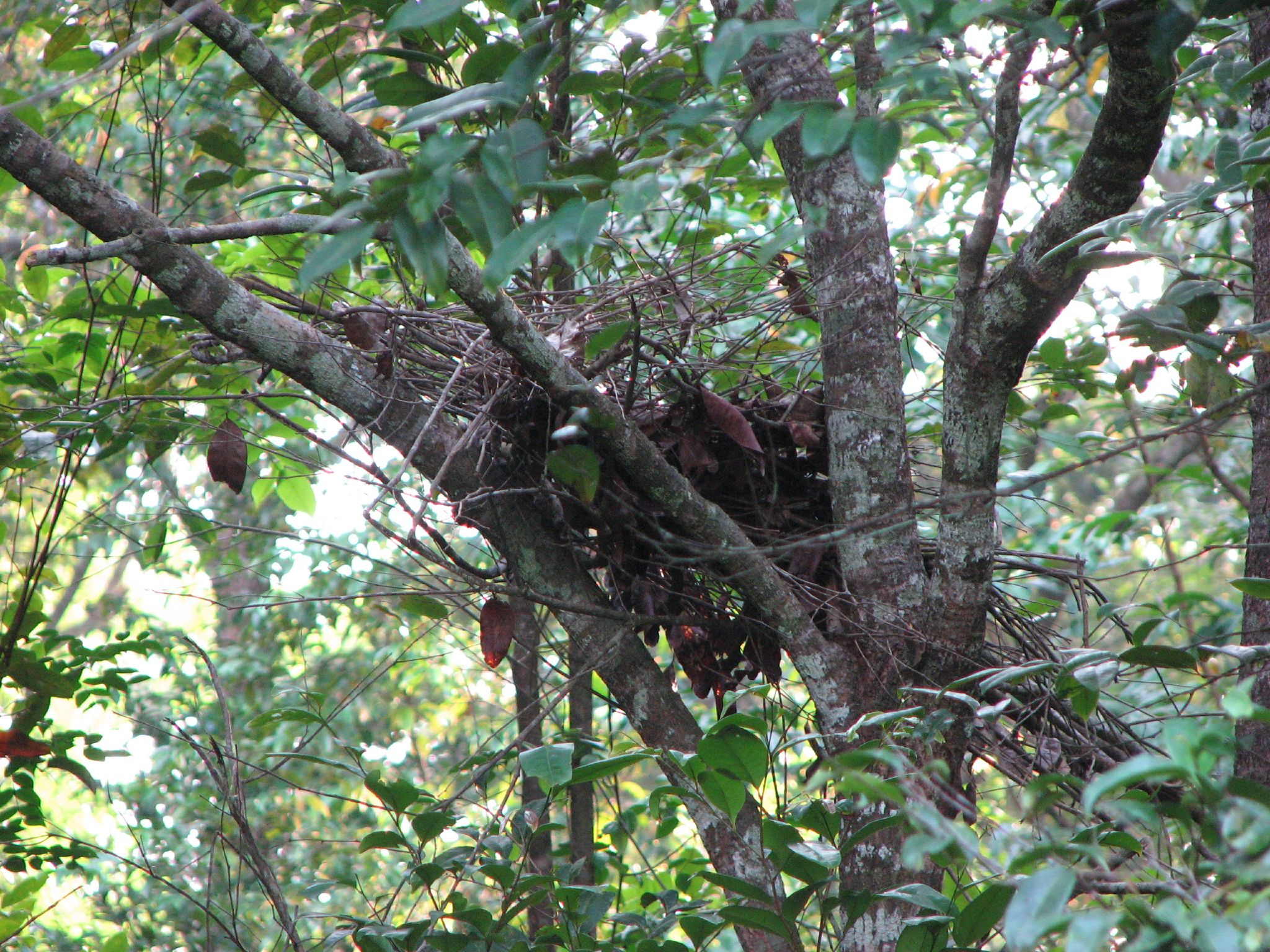 Nest of a Western lowland gorilla, near Sette Cama in Ogooué-Maritime Province, coastal Gabon. This photo was taken by Jefe Le Gran on July 4, 2007 using a Canon PowerShot S3 IS.